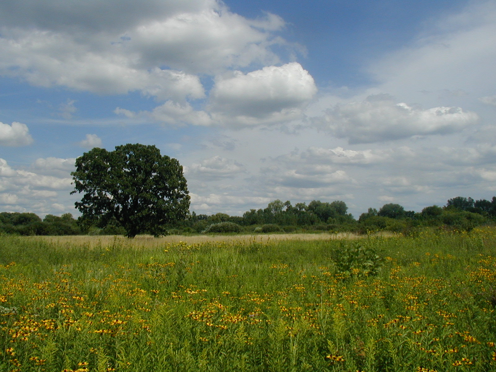 I took the photo myself.